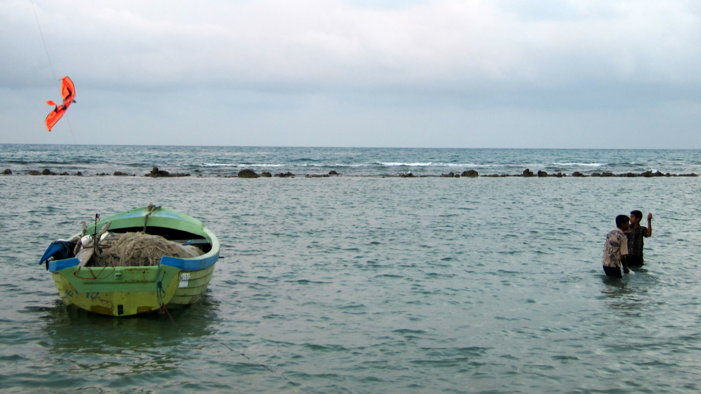 not a big deal, but this was the first time in decades that Point Pedro was so happening